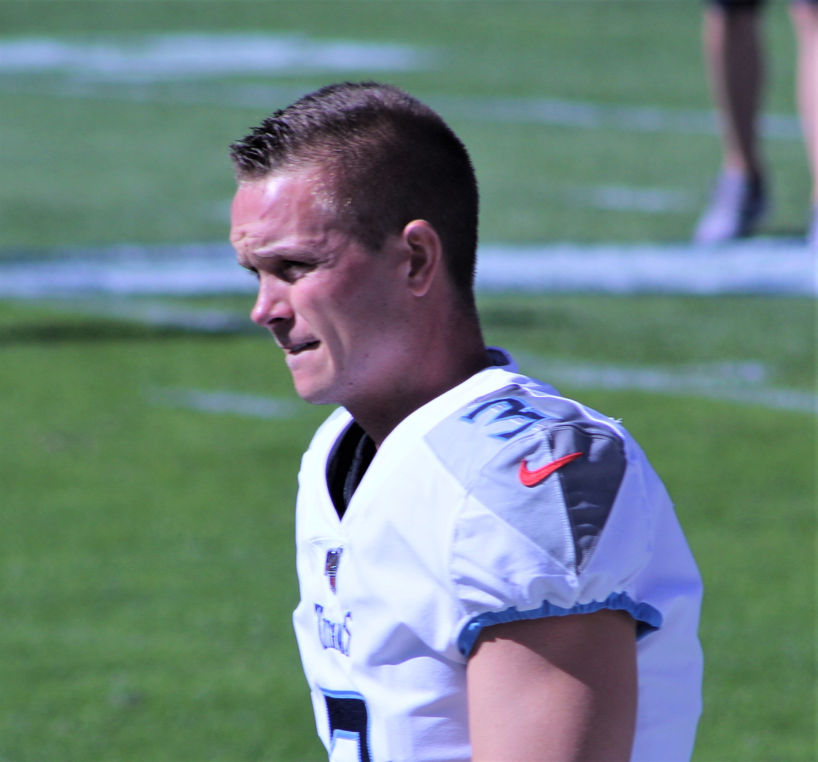 Cody Parkey with the Tennessee Titans on October 13, 2019